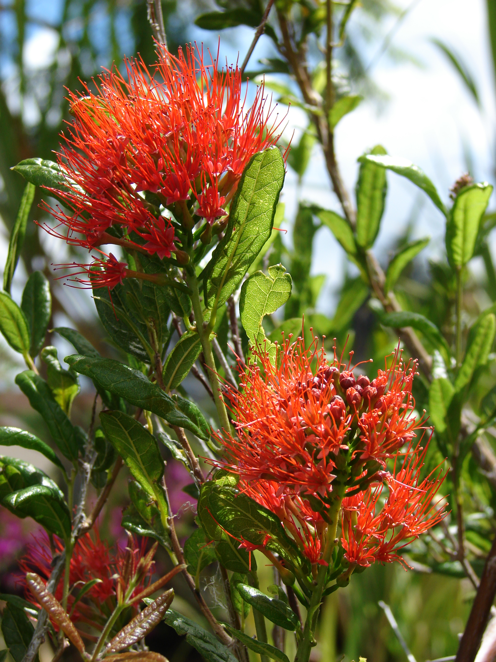 Combretum constrictum (flowers). Location: Maui, Enchanting Gardens of Kula